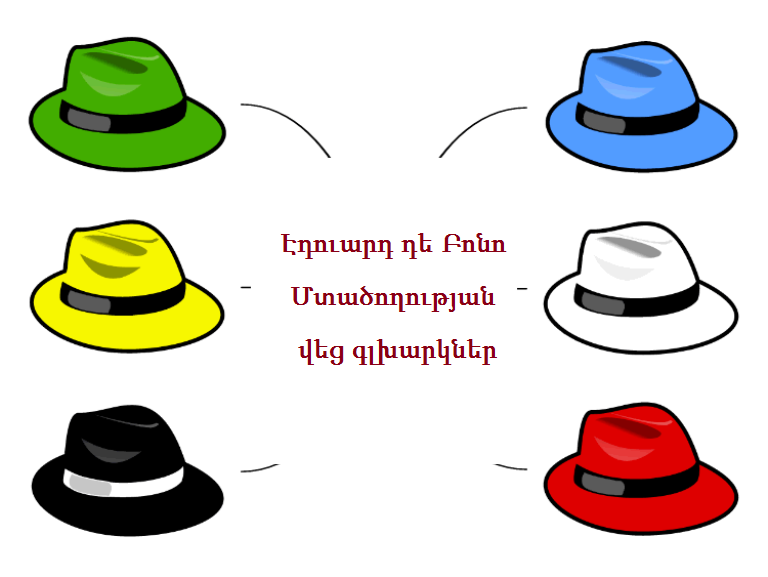 Six hats of Thinking